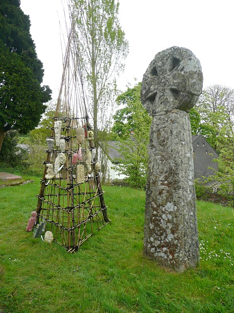 Cross in the churchyard, Cardinham This is one of two ancient crosses in the churchyard, outside the south porch. Next to it is a display of the wares of a local craft workshop.